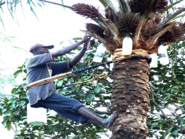 old and do good when it comes to palm wine, he gets natural wine not wine mixed with saccharine This is an image of "African people at work" from Nigeria